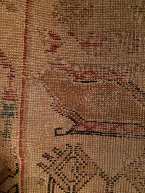 Lazy line (diagonally from bottom left to top right, crossing the "body" of a "bird" ornament). White-ground Selendi "bird rug", Monastery Church in Sighișoara, Transylvania, Romania.